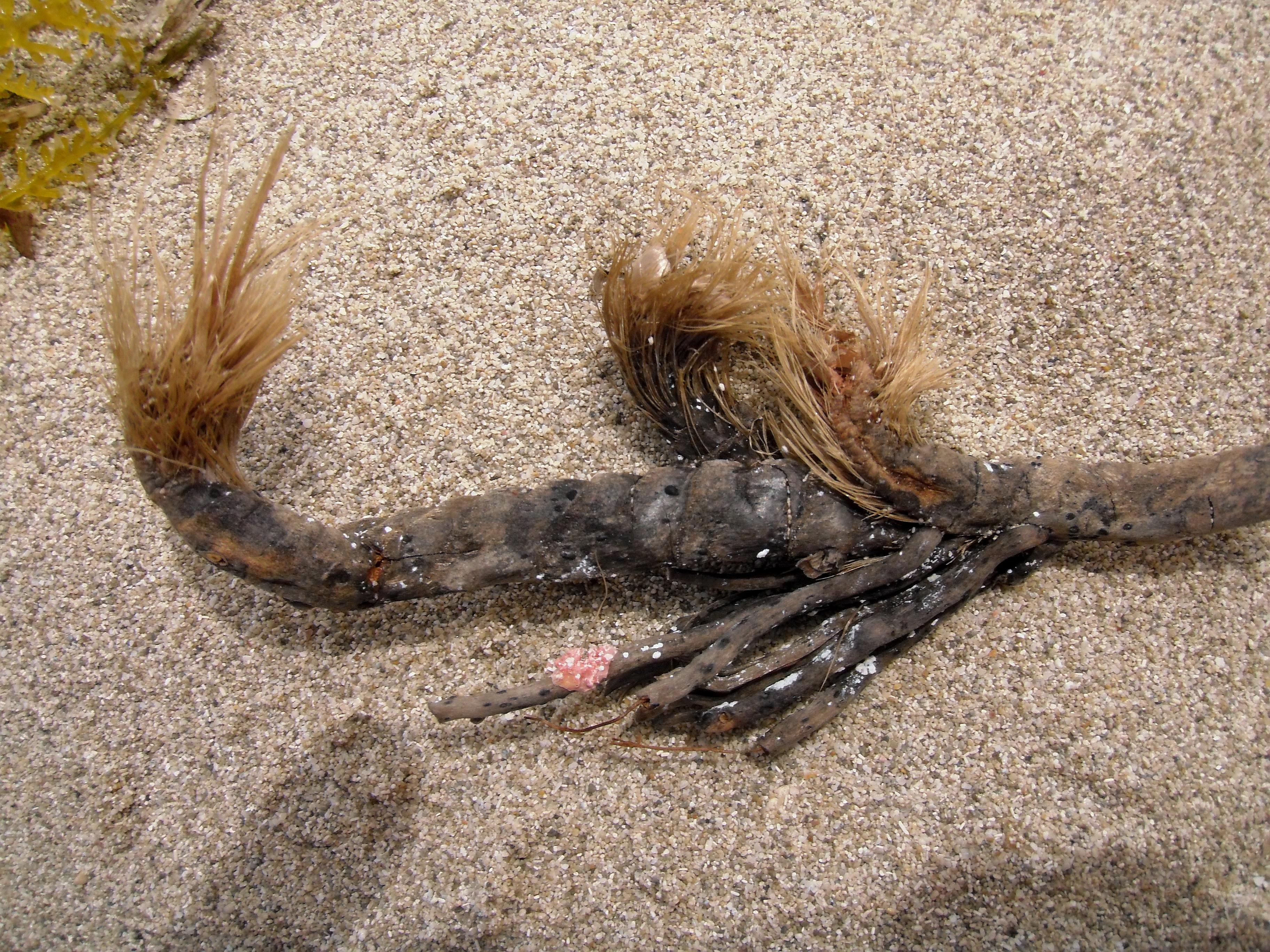 Old Rhizom of Posidonia oceanica, Platja des Cavallet, Ibiza